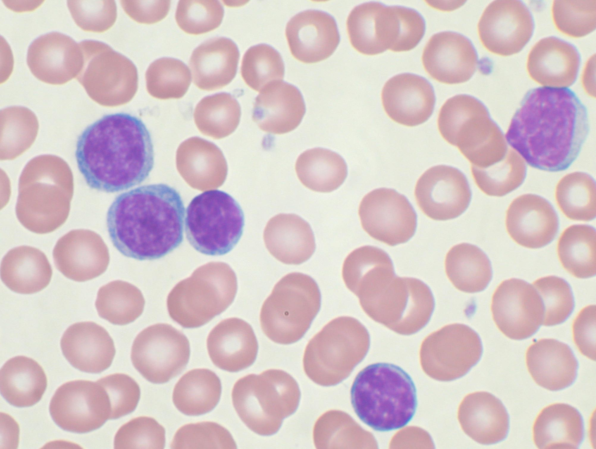 High-power magnification (1000 X) of a Wright's stained peripheral blood smear showing chronic lymphocytic leukemia (CLL). The lymphocytes with the darkly staining nuclei and scant cytoplasm are the CLL cells.